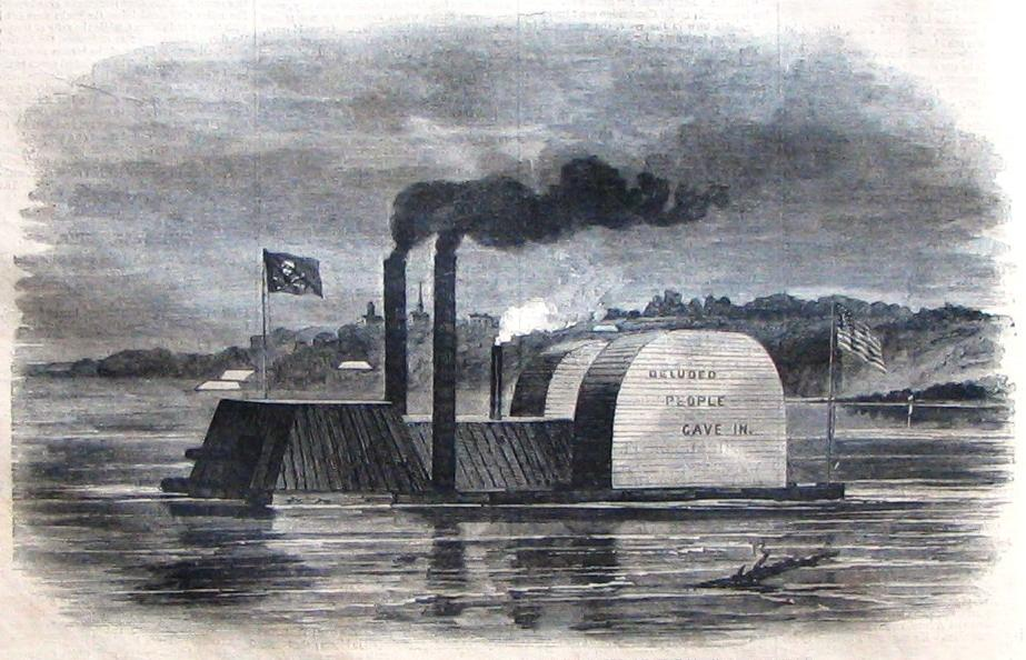 Admiral [David Dixon] Porter's Second Dummy Frightening the Rebels at Vicksburg. This shows a wooden dummy "ironclad" made from an old coal barge. LC-USZ62-138379: Admiral Porter’s Second Dummy Frightening the Rebels at Vicksburg. Note the dummy ship that reads, “Deluded People Gave in” and the Pirate Flag, 1863. Courtesy of the Library of Congress. (4/23/2015). The Black Terror, depicts the so called Black Terror, the second of two sham gunboats. "Deluded people gave in", Porter's Smoke Pot Ironclad sent down the Mississippi in the direction of the Indianola wreck. It reportedly cost $8.63, designed to reveal the locations of Southern artillery emplacements (See Harper's Weekly, April 11, 1863). See Joseph Brown and His Civil War Ironclads: The USS Chillicothe, Indianola and ... By Myron J. Smith, Jr.page 210